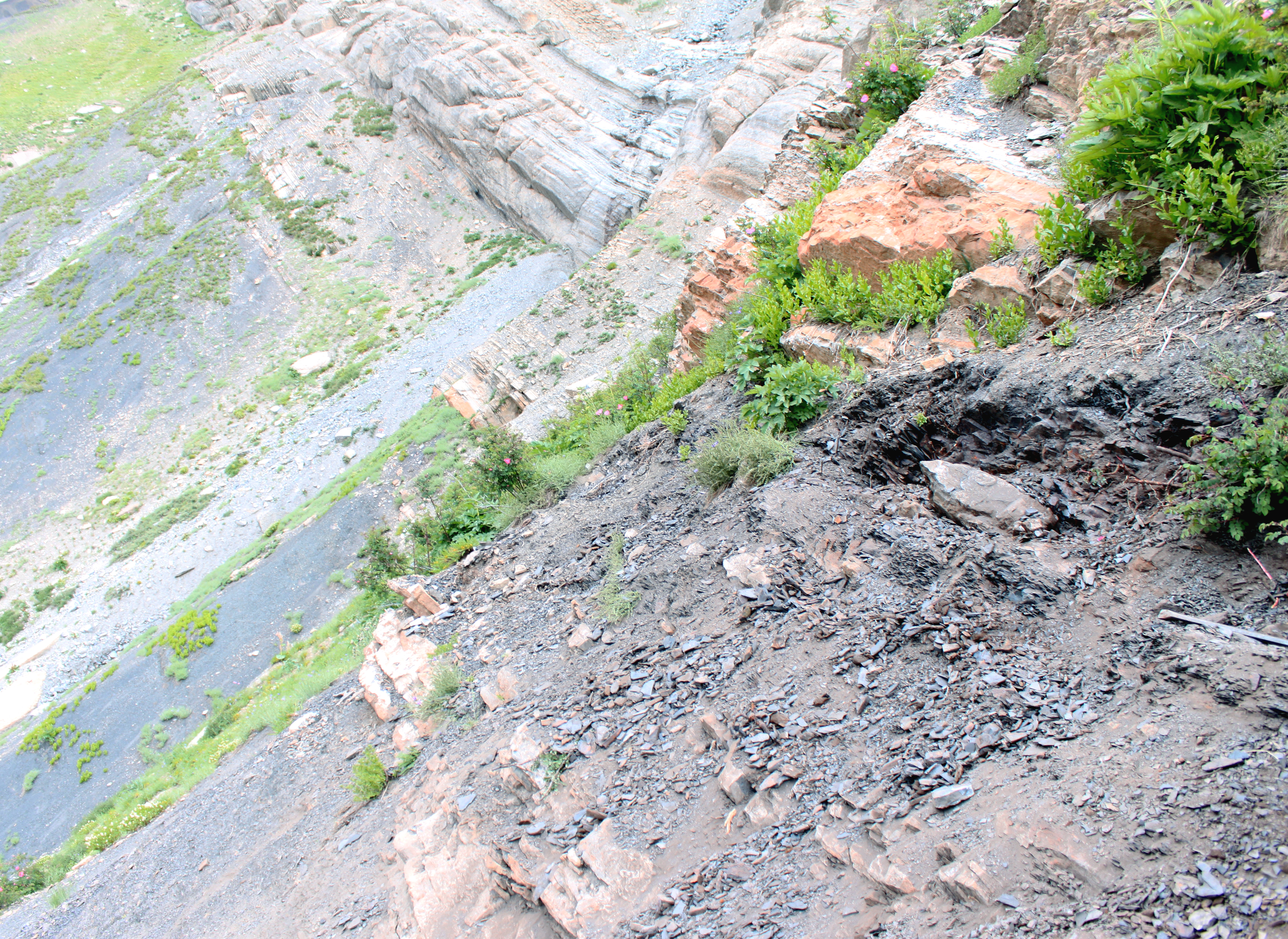 Lower part of the Induan aged Limestone and Shale Member, Mikin Formation at Mud (Spiti, Himachal Pradesh, India)